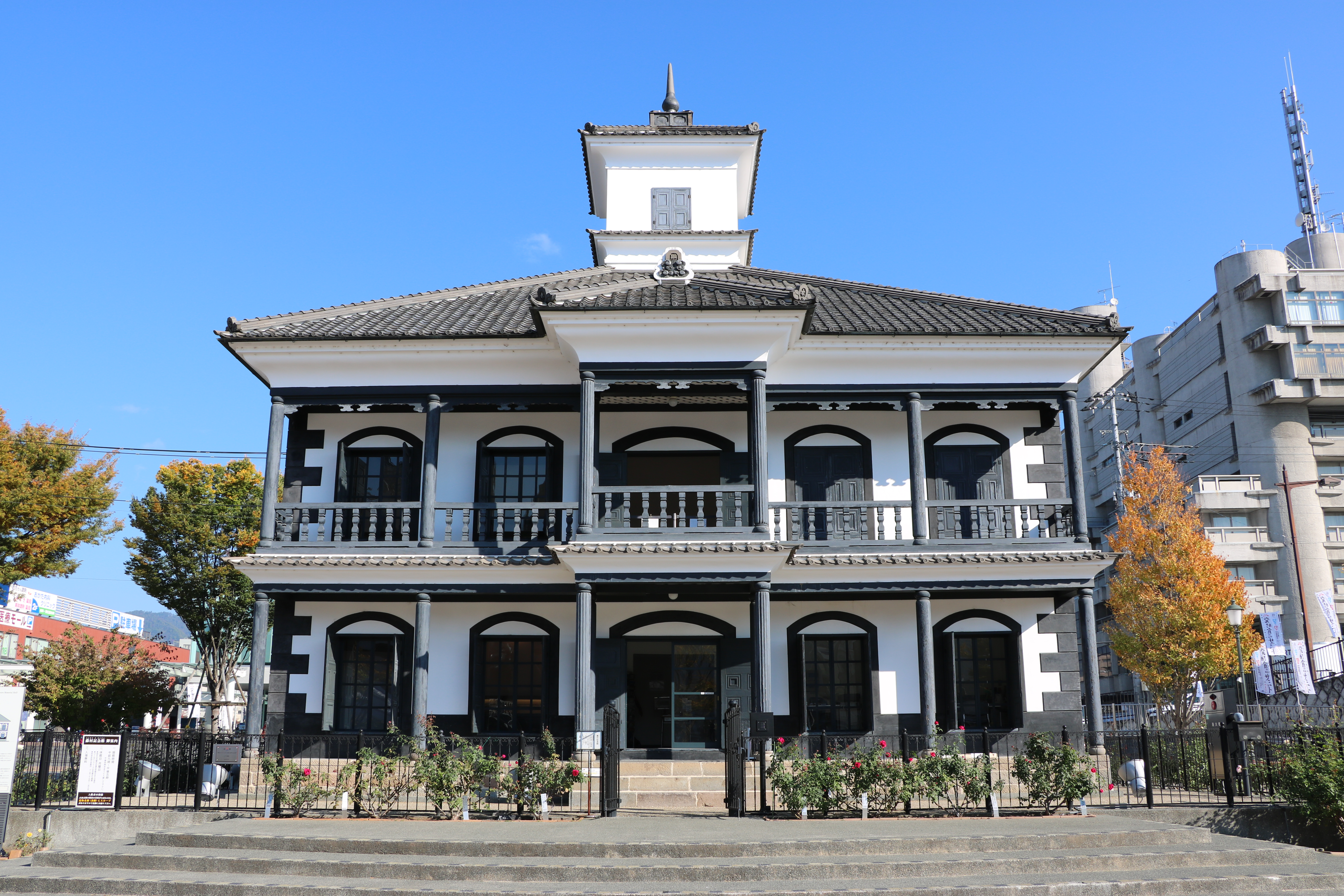 Fujimura Memorial Hall.